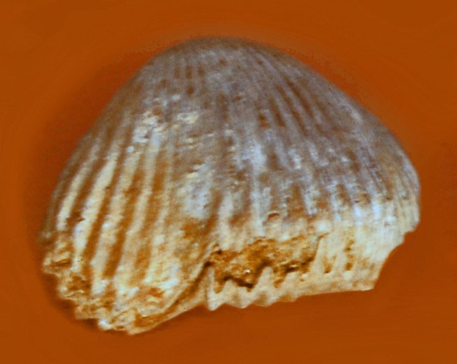 Crop of file in filename